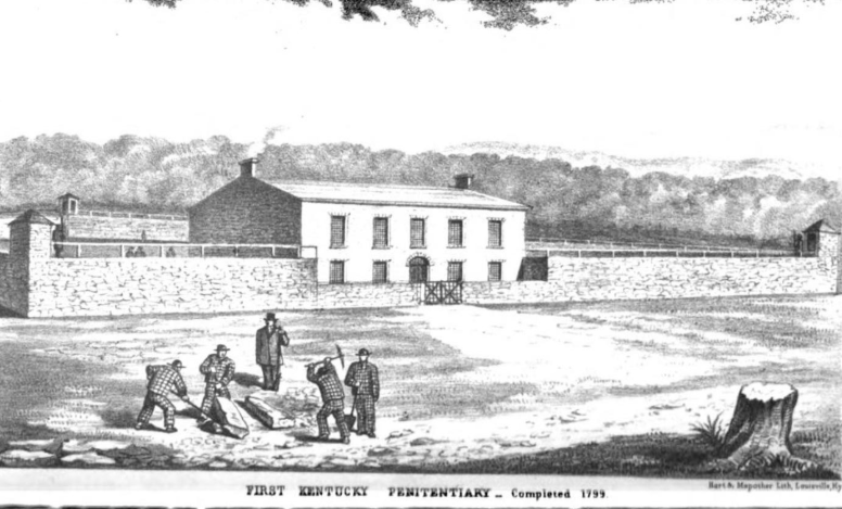 First Kentucky Penitentiary completed 1799